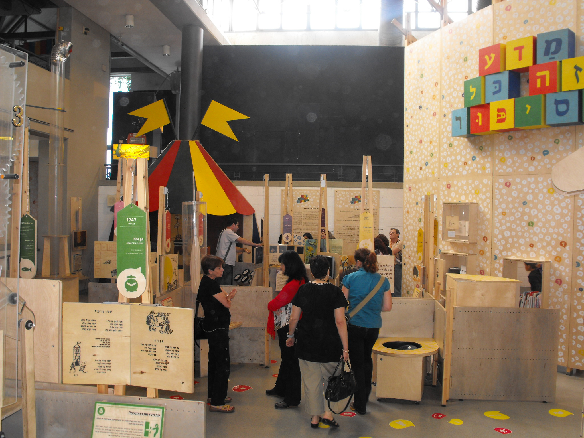 Science Museum in Jerusalem, Science and technology in Israel